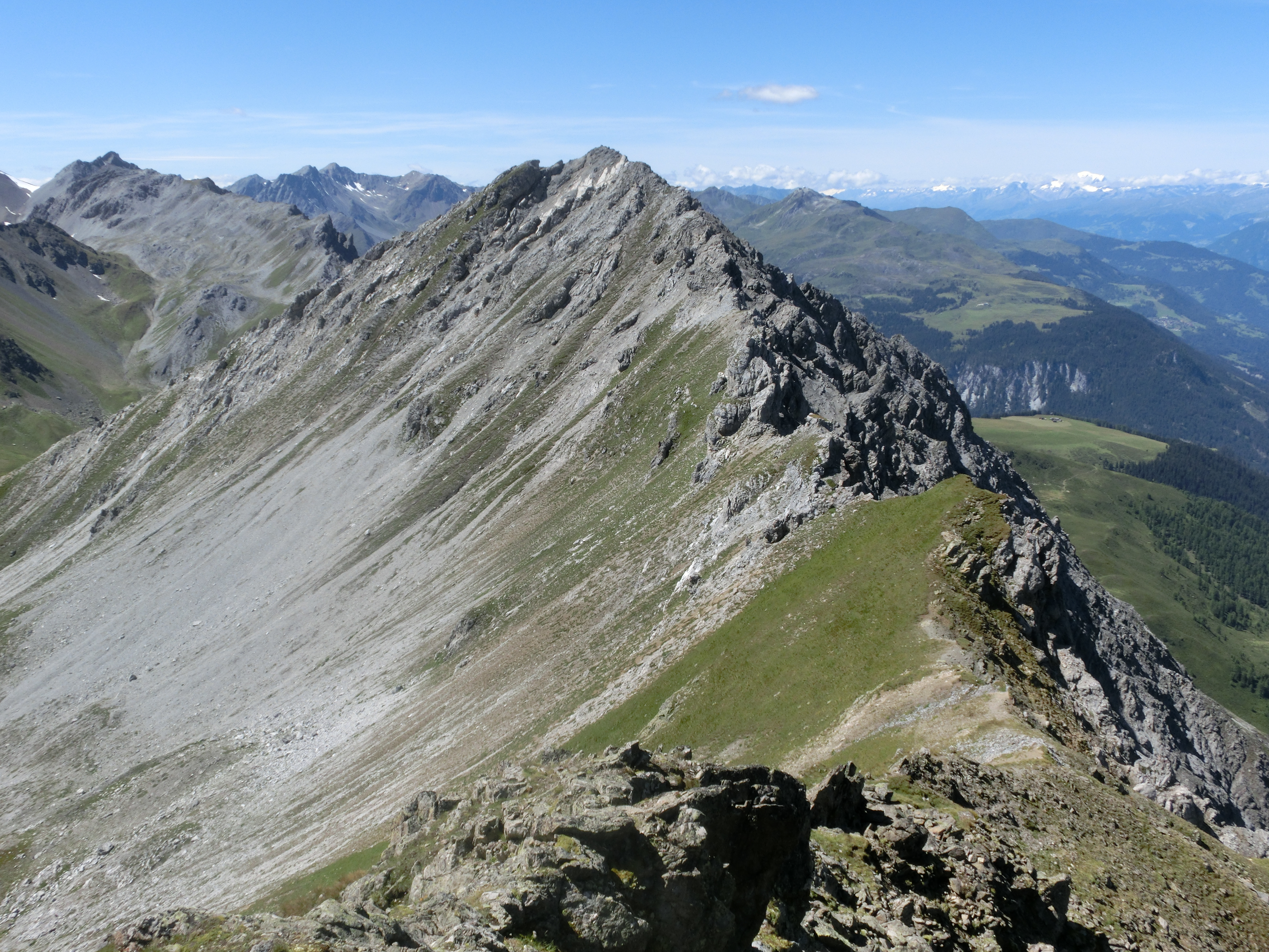 Chüpfenflue, picture taken from Strela, Arosa, Davos, Grison, Switzerland